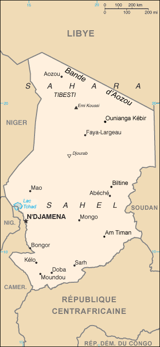 French map of Chad